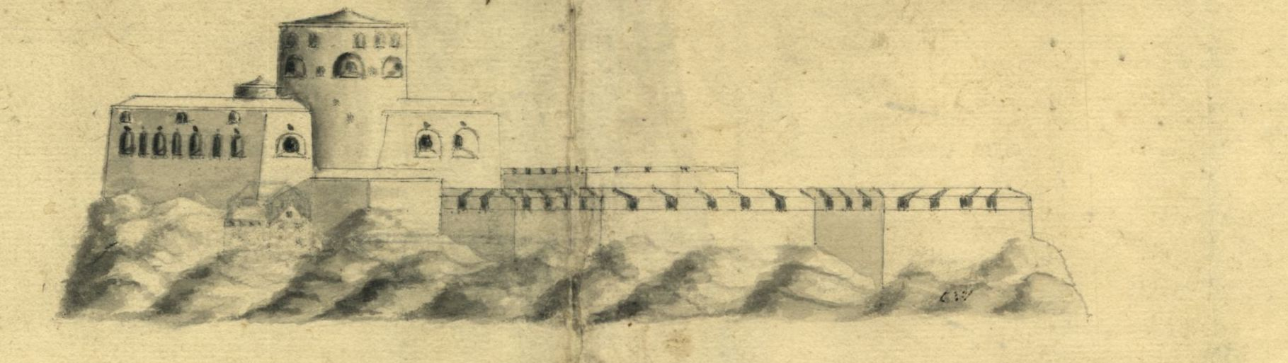 Detail showing the Swedish fortess Karlsten i Marstrand 1716. View from south.